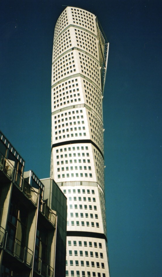 The "Turning Torso" in Malmo harbour.